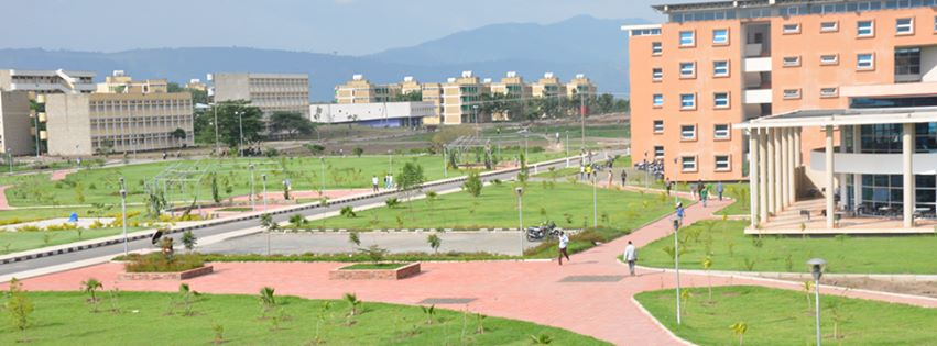 Hawassa Univesity